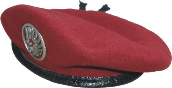 Red Beret paratroopers of the 35th R.A.P. (France).